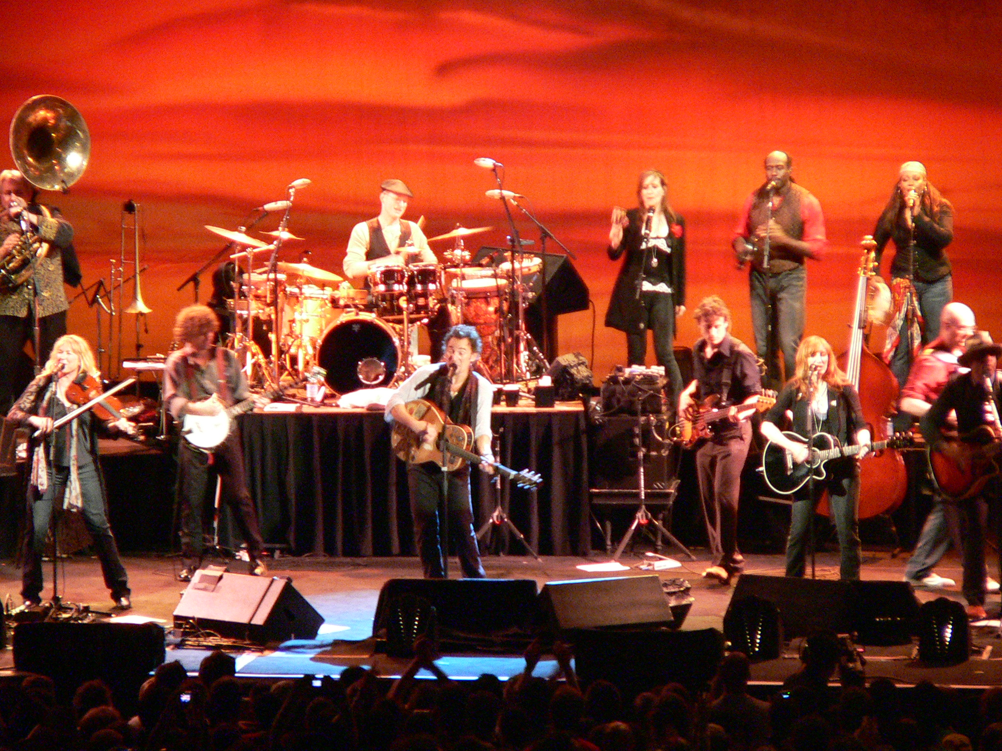 Bruce Springsteen & the Seeger Sessions Band live in Milan, 12-05-2006